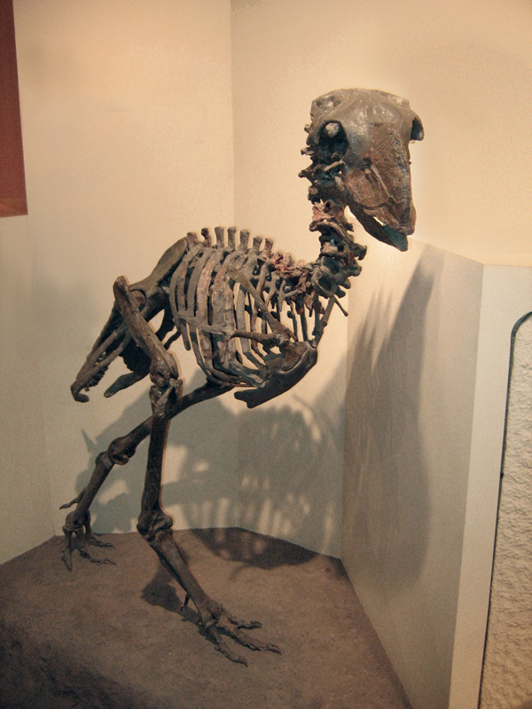 Gastornis fossil specimen at the National Museum of Natural History, Washington, D.C..